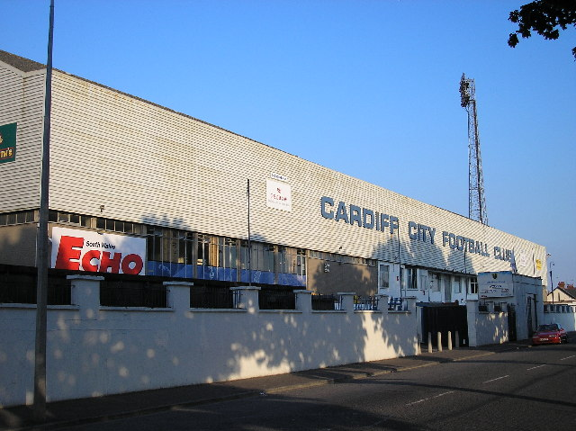 Ninian Park, Cardiff Ninian Park, home of Cardiff City Football Club, the only non-English team to have ever won the FA cup, by beating Arsenal in 1927, 1-0 with a goal in the 74th minute from Ferguson.